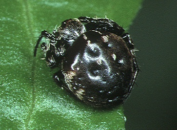 female Eriovixia sakiedaorum from Okinawa.